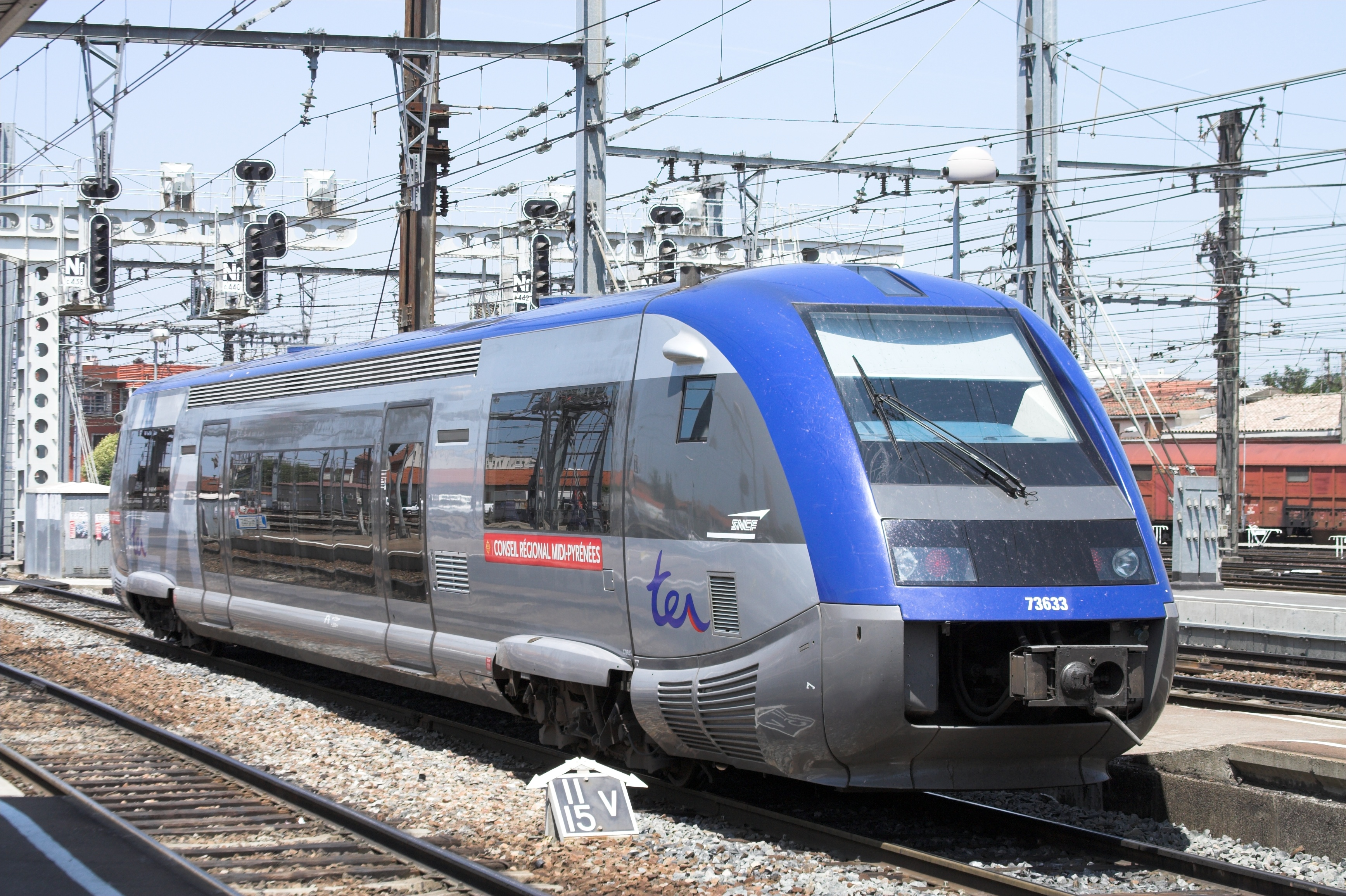 Autorail X73500 at the station Matabiau in Toulouse, France